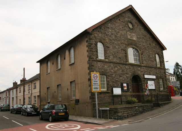 Bryn Sion Chapel in Trecynon